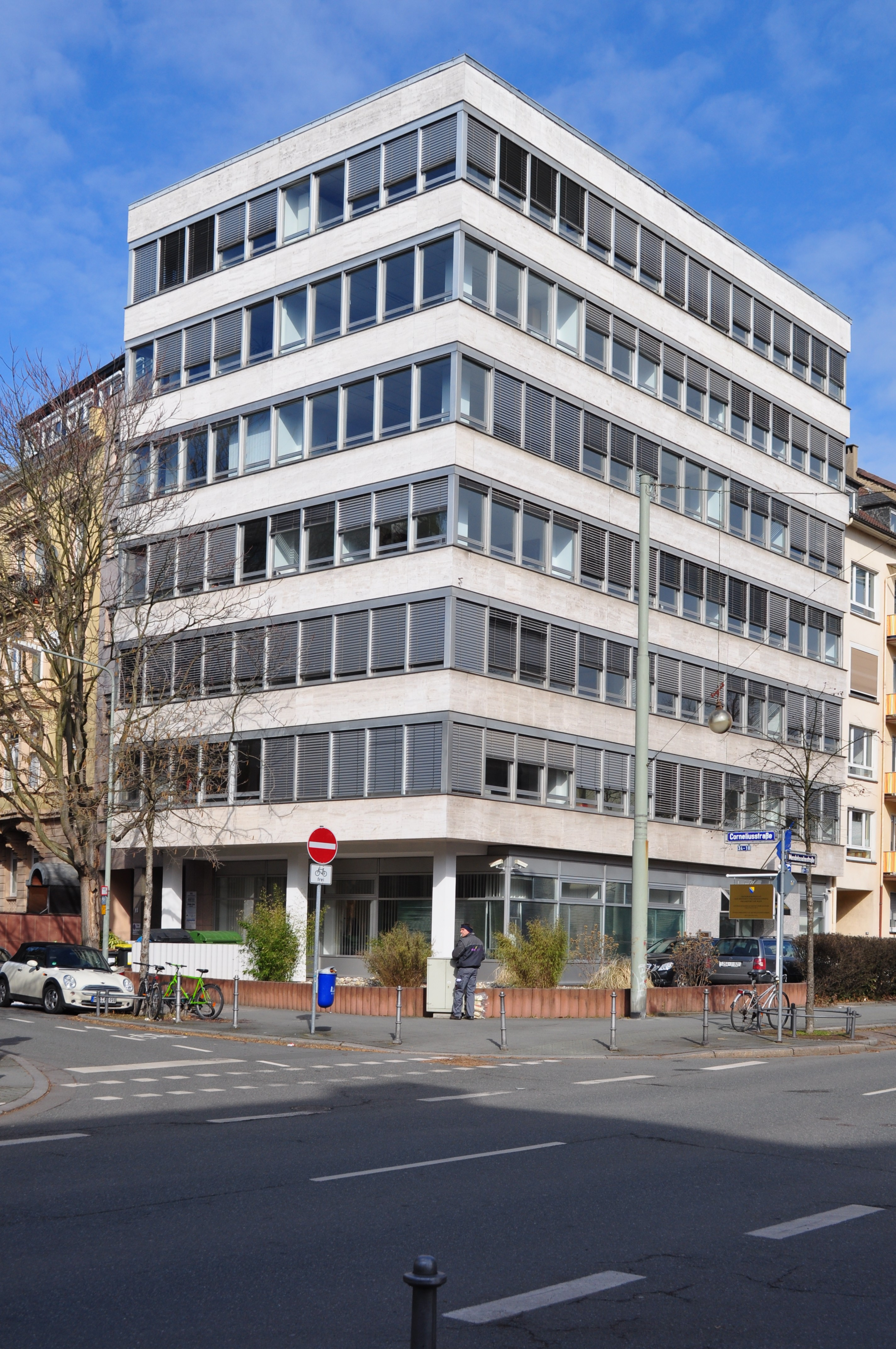 Consulate General of Bosnia and Herzegovina in Frankfurt am Main